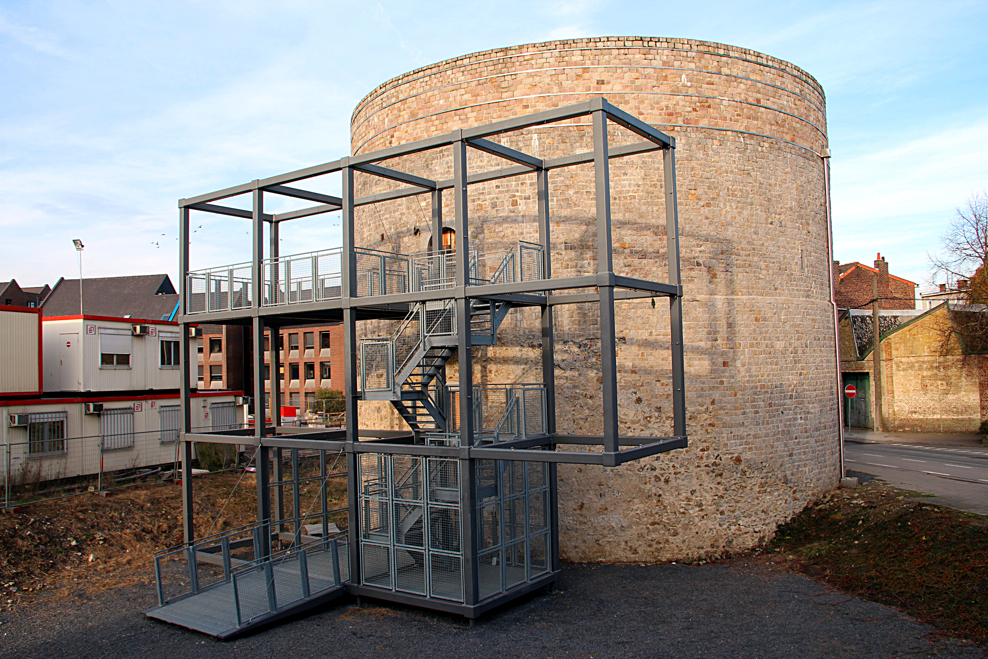 Mons (Belgium), rue des Arbalestriers - Valenciennoise tower (1340).